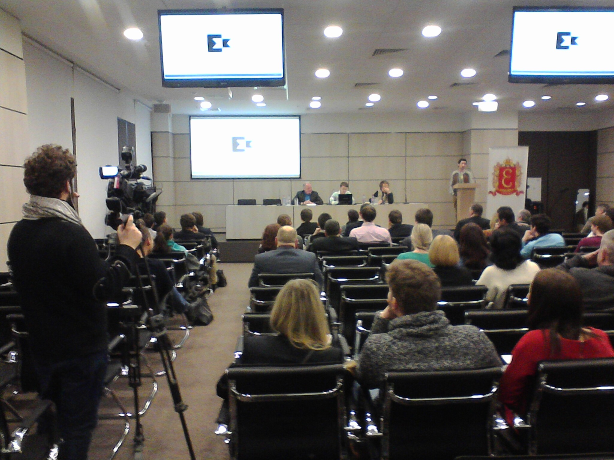 Ekaterinburg Senate 3rd session